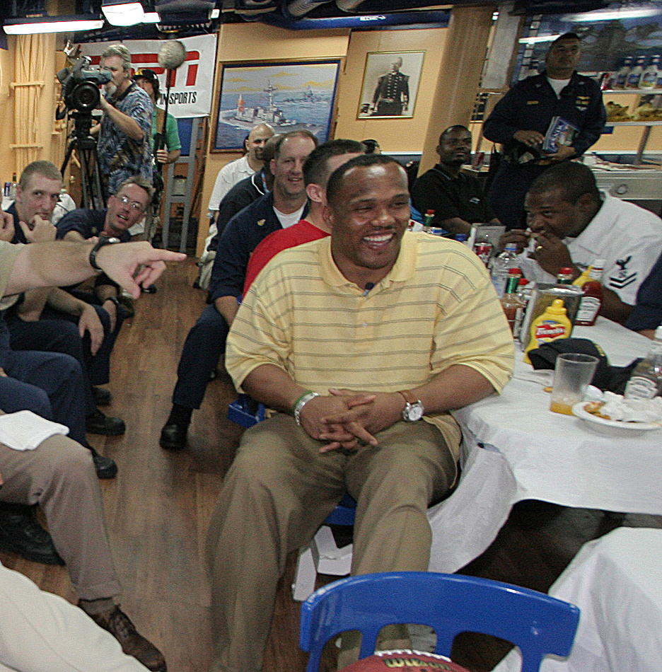 ESPN commentators and former National Football League (NFL) players Mike Golic and Mark Schlereth and Green Bay Packer fullback William Henderson and Sailors watch the 2005 Super Bowl in the galley aboard USS Russell (DDG 59). Golic, Schlereth and Henderson were invited for a visit aboard Russell to watch the Super Bowl with the ship's crew, have lunch and tour the ship.